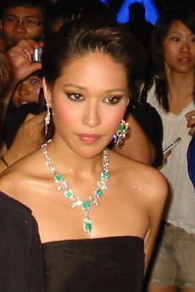 Chermarn Boonyasak, The Love of Siam